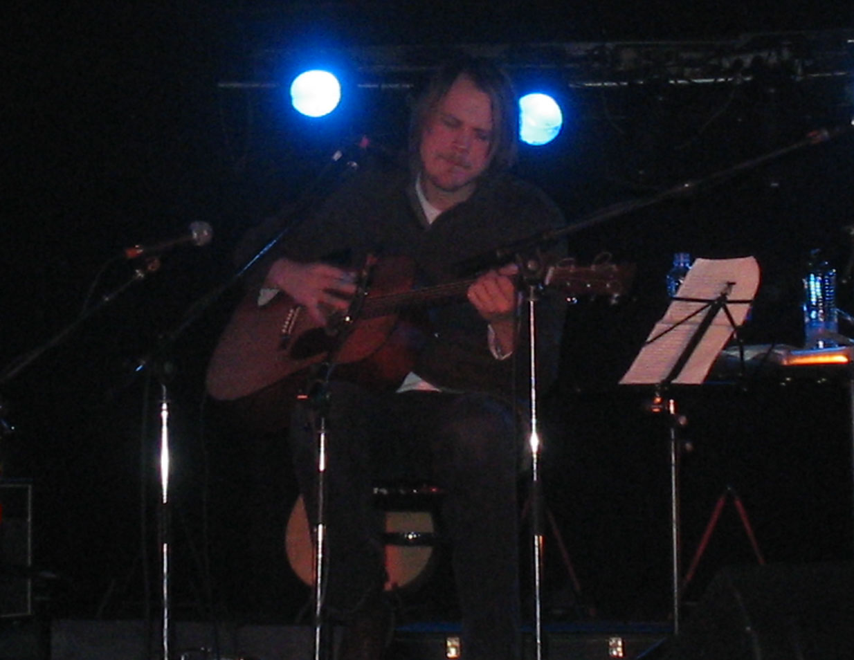 Christian Kjellvander, (29.01.2006, Cologne, Germany)